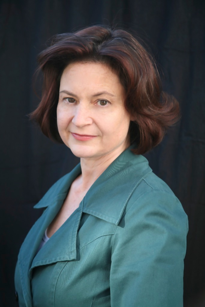 headshot